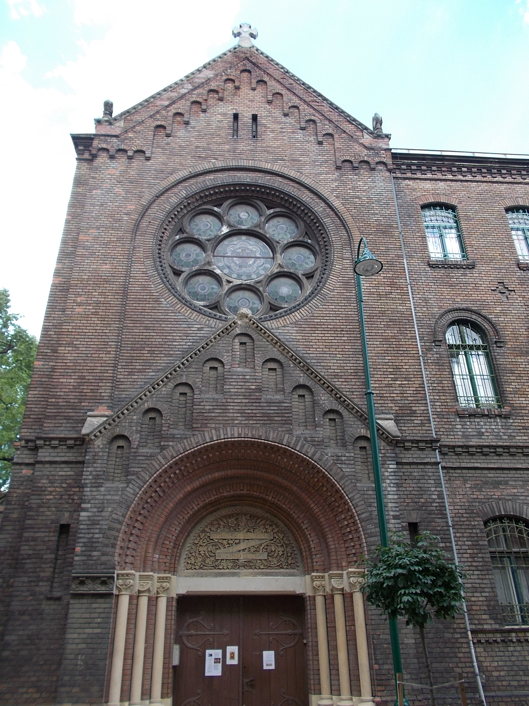 Saint Petrus Canisius church. - Gát Street, Budapest District IX., Hungary.